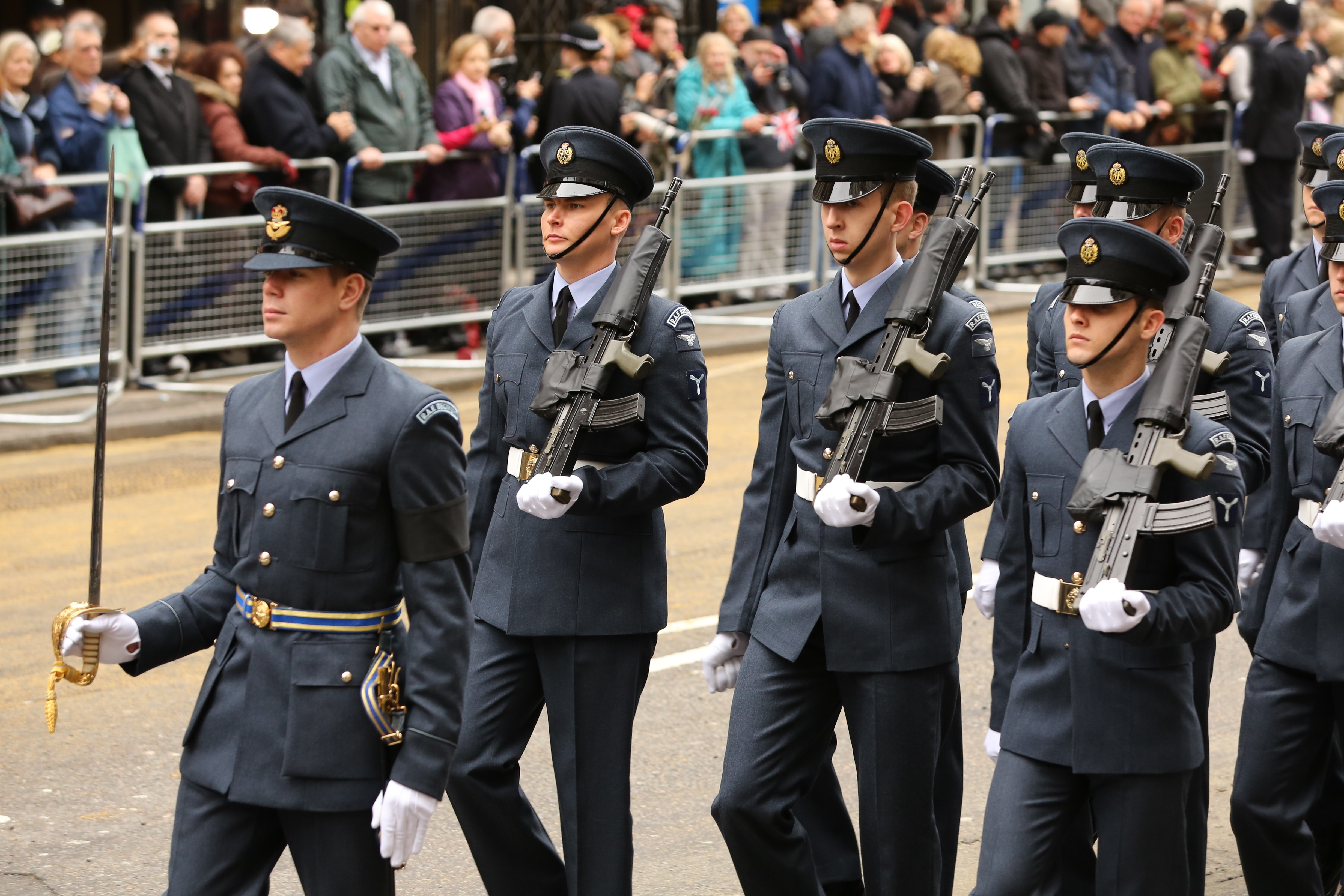 Personnel of the RAF Regiment at Margaret Thatcher's funeral